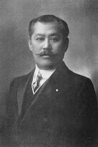 Yoritsugu Sagara